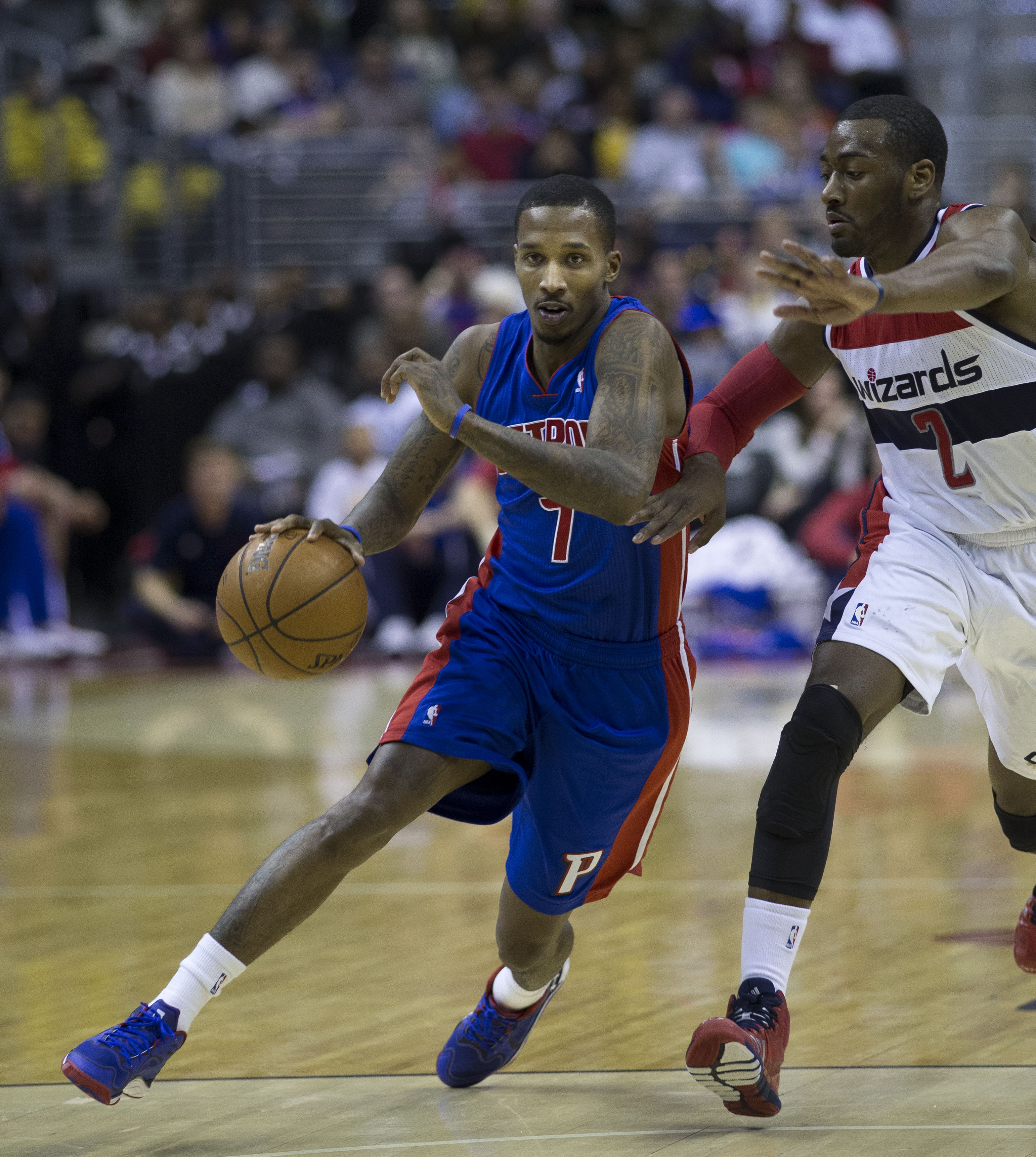 Pistons at Wizards 1/18/14